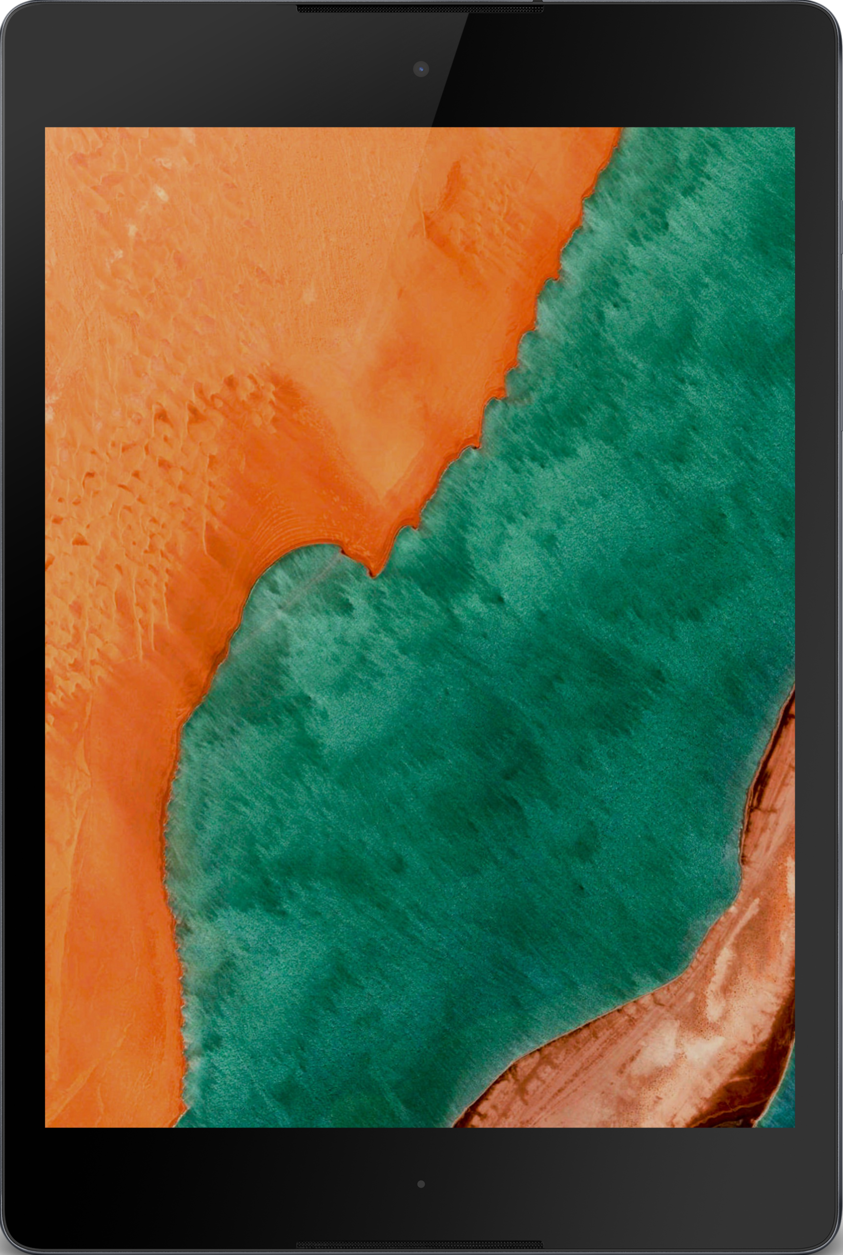 Photo of the Nexus 9, which is released under CC 2.5 Attribution. Portions of this page are reproduced from work created and shared by the Android Open Source Project and used according to terms described in the Creative Commons 2.5 Attribution License. [1].